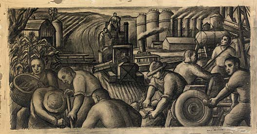 Study for Paul Meltsner Section of Fine Arts mural, "Ohio", in the Bellevue, Ohio post office. Meltser created this mural study in 1937 under the employment of the Department of the Treasury's Section of Painting and Sculpture. In the collection of the Smithsonian American Art Museum. More information at The Living New Deal